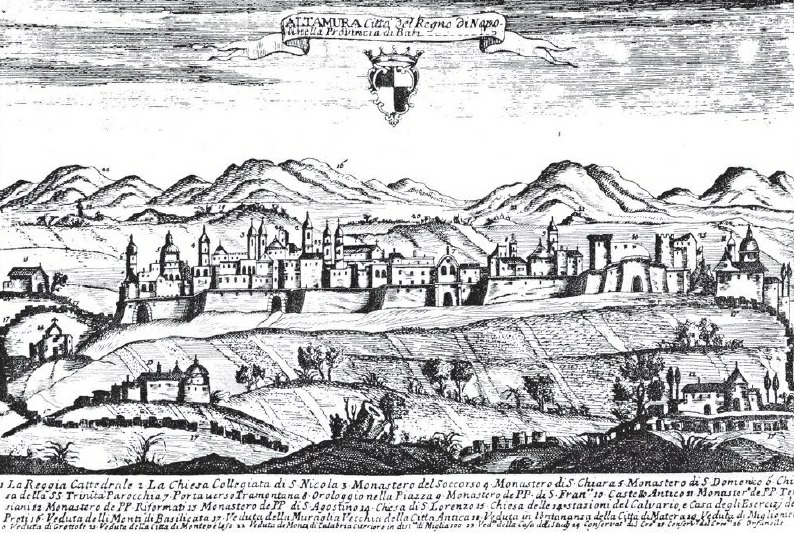 View of Atamura - Image taken from Cesare Orlandi's book Delle città d'Italia (1770)